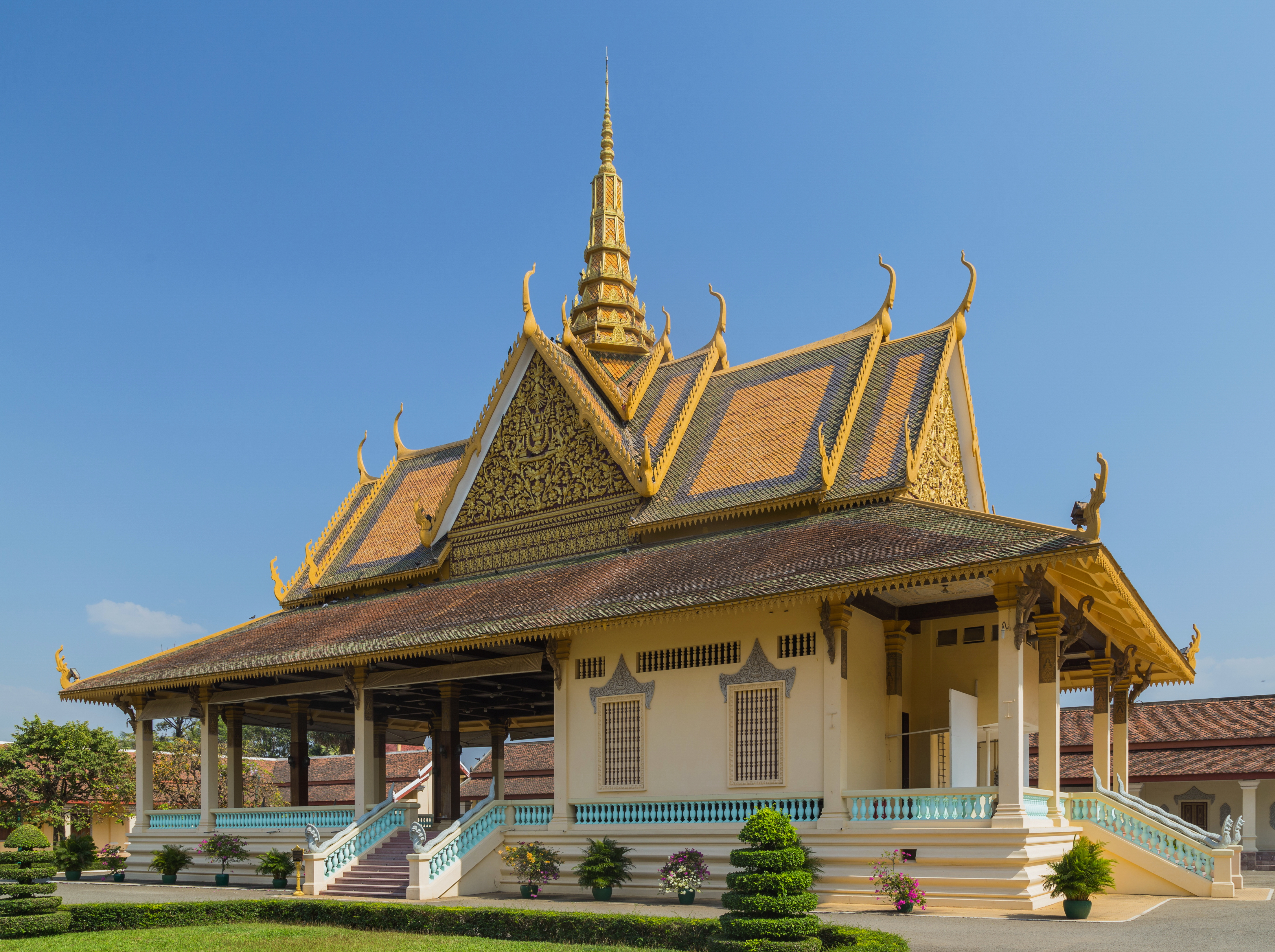 Preah Tineang Phhochani. Royal Palace. Phnom Penh, Cambodia.